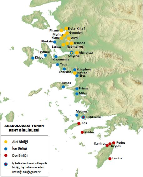 ancient greek city-unions in anatoliaTürkçe: anadoludaki yunan şehir birlikleri Turkish text relating to Halicarnassus (Halikarnas) reads: iç halka kentin ait olduğu ilk birliği, dış halka sonradan katıldığı birliği gösterir. In English this means that the inner ring (red) shows the initial union (Dorian), the outer ring (blue) shows the subsequent union (Ionian). Similarly Smyrna was originally Aeolian then later Ionian.